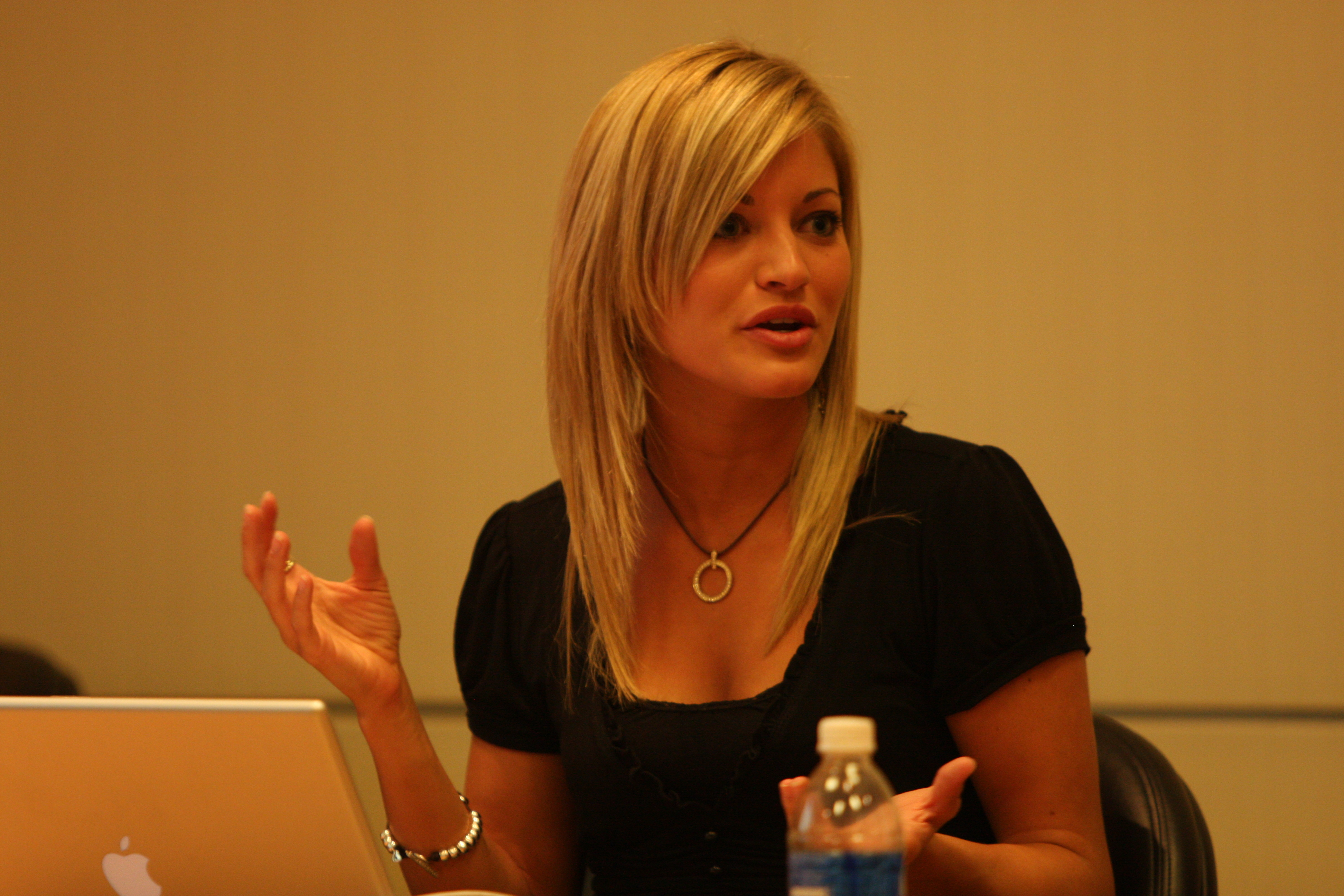 Justine Ezarik at the Intel insider event. Original description: (CC) Brian Solis, and Feel free to use this picture. Please credit as shown.